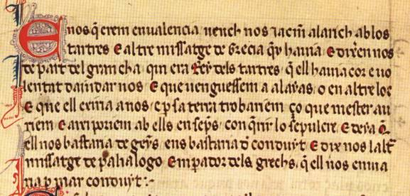 Excerpt from the book "Llibre dels fets" of James I, where he talks about an embassy sent to the great khan by means of Jayme Alaric, with two mongols ambassadors returning to his court: "...E nós que érem en ualencia uench-nos Jacme Alarich ab los tartres e altre missatge de Grècia que y havia, e dixeren-nos de part del gran cha, qui era Rei dels tartres, que ell hauia cor e volentat d’ajudar-nos, e que venguéssem a alayas o en altre loc e que ell eixiria a nós, e per sa terra trobaríem ço que mester auríem e així poríem ab ells ensems conquerir lo Sepulcre. E deïa que ell nos bastaria de “genys”, e ens bastaria de conduit. E dix-nos l’altre missatge de Palialogo, emperador dels grechs, que ell nos enviaria per mar conduit..."